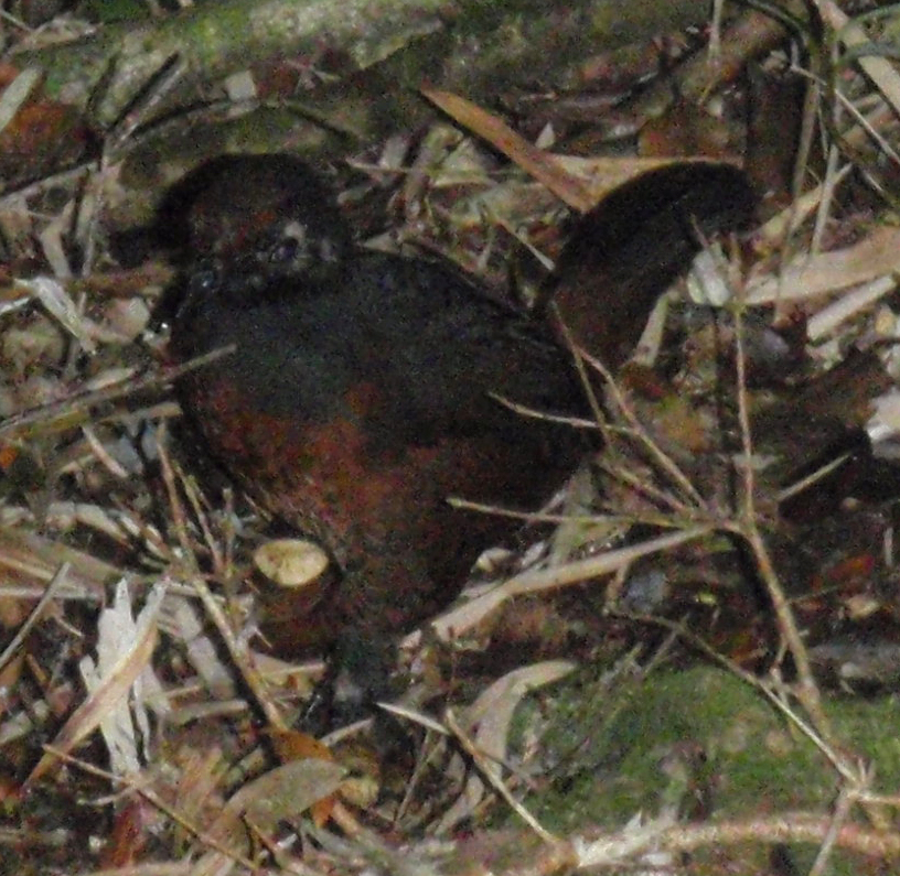 A Black-throated Huet-huet in the forest understory of Chiloe National Park near Cucao, Chile.